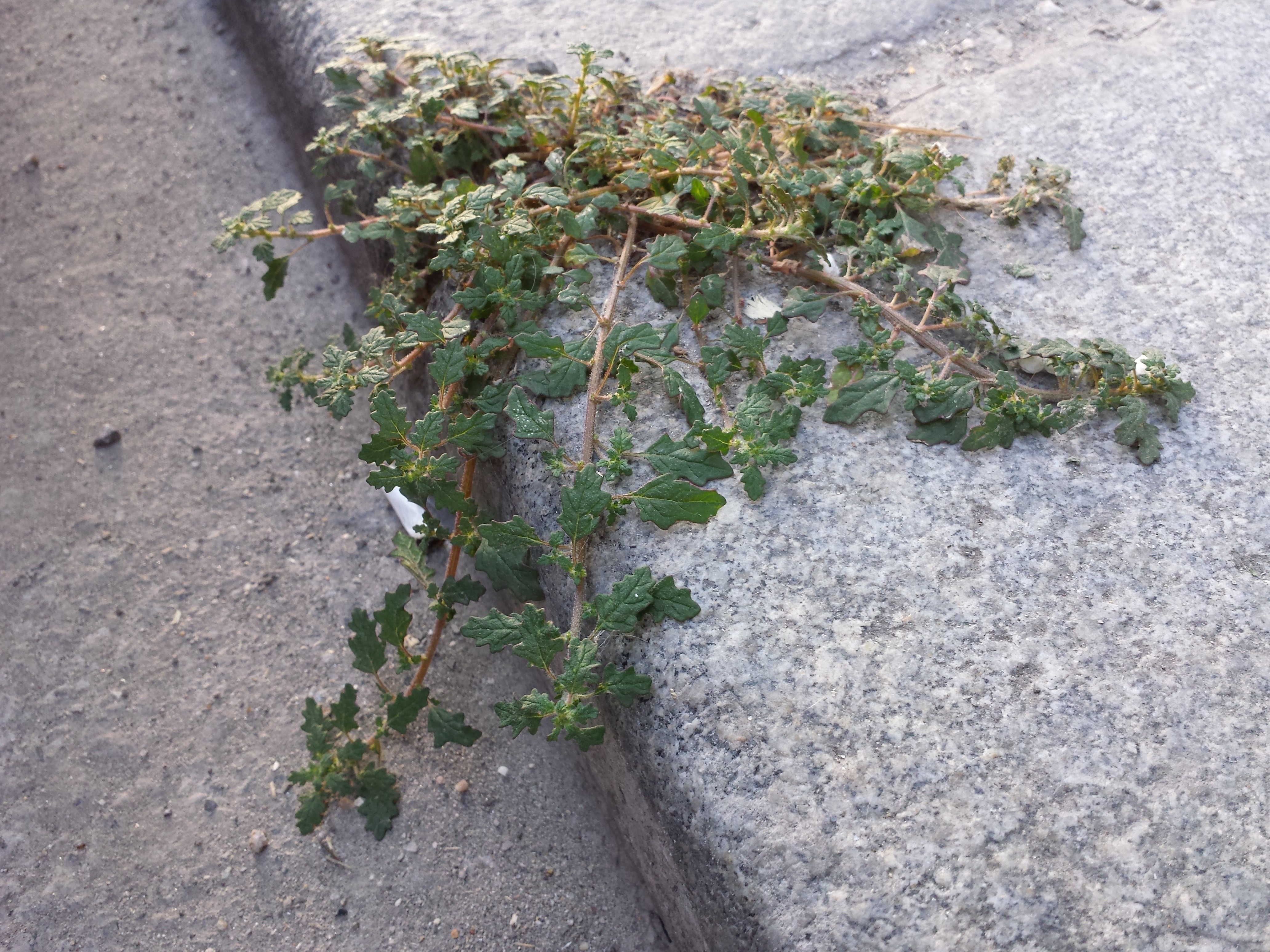 Habitus Taxonym: Dysphania pumilio ss Fischer et al. EfÖLS 2008 ISBN 978-3-85474-187-9 Location: Schwaigergasse, Vienna-Floridsdorf - ca. 160 m a.s.l. Habitat: gap in surface